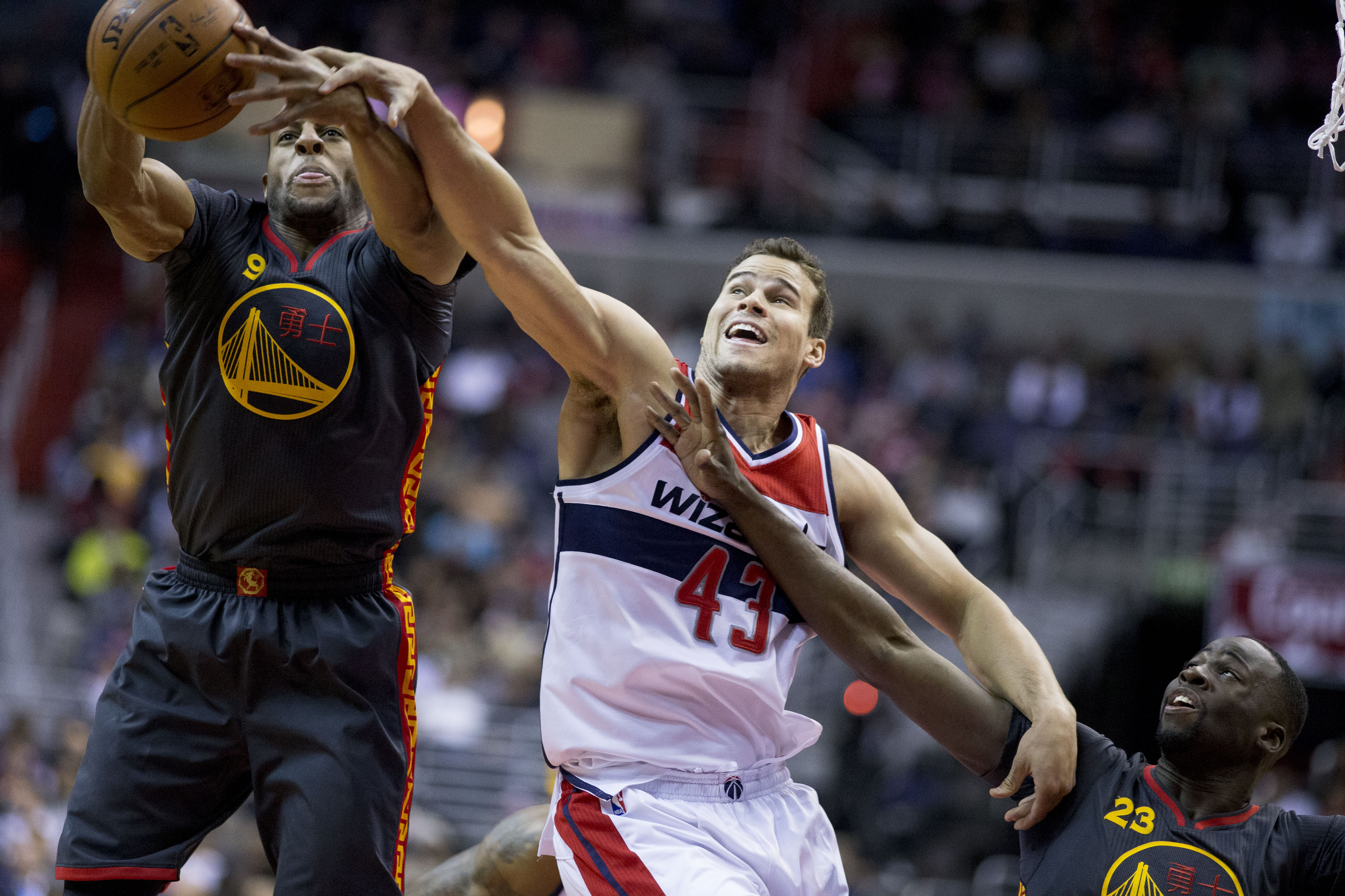 Warriors at Wizards 02/24/15